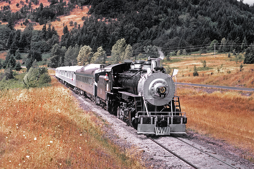 Oregon, Pacific, & Eastern using Yreka Western #19 is heading to Dorena outside Cottage Grove, Oregon in August of 1971. The railraod close in 1987 and the rail pulled up. It is now called the Row River Trail